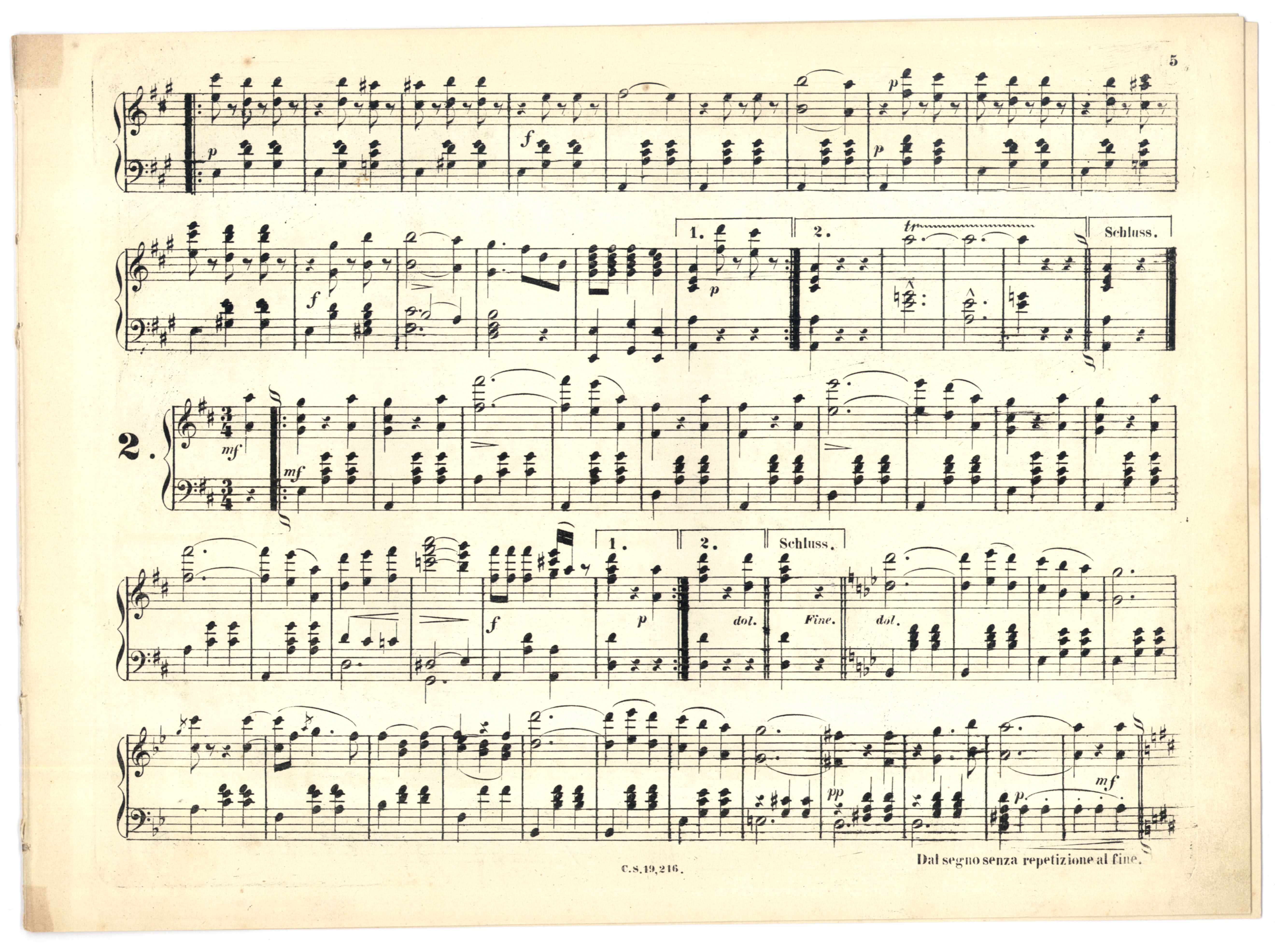 Johann Strauss II. The Blue Danube, 1st ed. by Carl Anton Spina